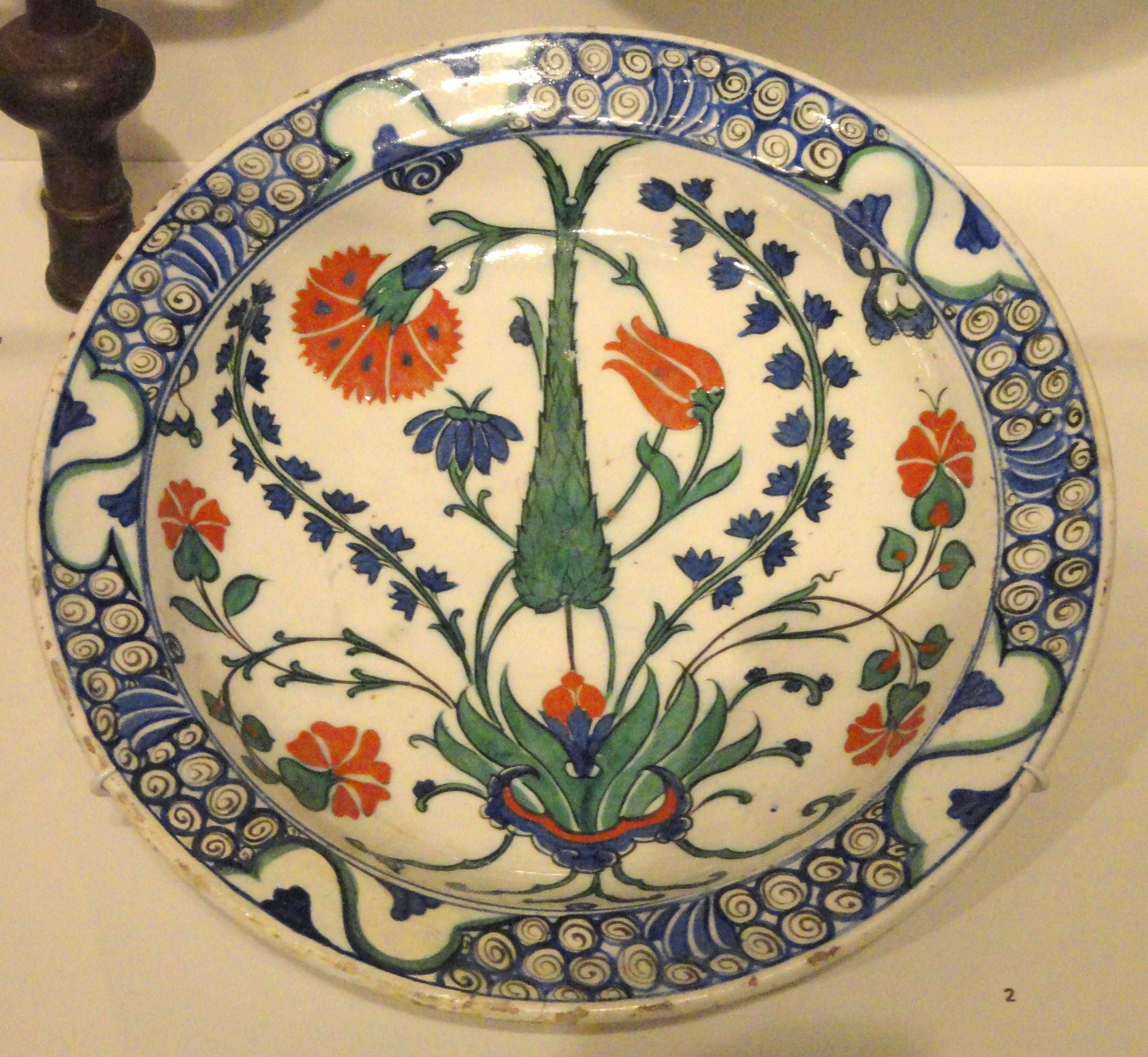 Exhibit in the Sackler Museum, Harvard University, Cambridge, Massachusetts, USA. The museum permitted photography of this artwork without restriction. This artwork is in the public domain because the artist died more than 70 years ago.